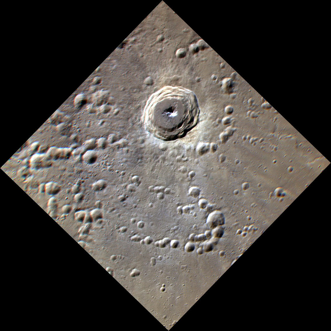 Kulthum crater on Mercury (slightly oblique). Approximate color representation combining three images acquired by MESSENGER Wide Angle Camera (EW0249556580F, EW0249556584G, EW0249556588I) with I (996.2 nm), G (748.7 nm), and F (433.2 nm) filters. Combined in GIMP software as RGB (Red-Green-Blue), and then rotated so that north is up. Statistics for I image: Emission Angle: 23.4 Incidence Angle: 58.4 Latitude: 50.3 Longitude: 93.5 Phase Angle: 81.8